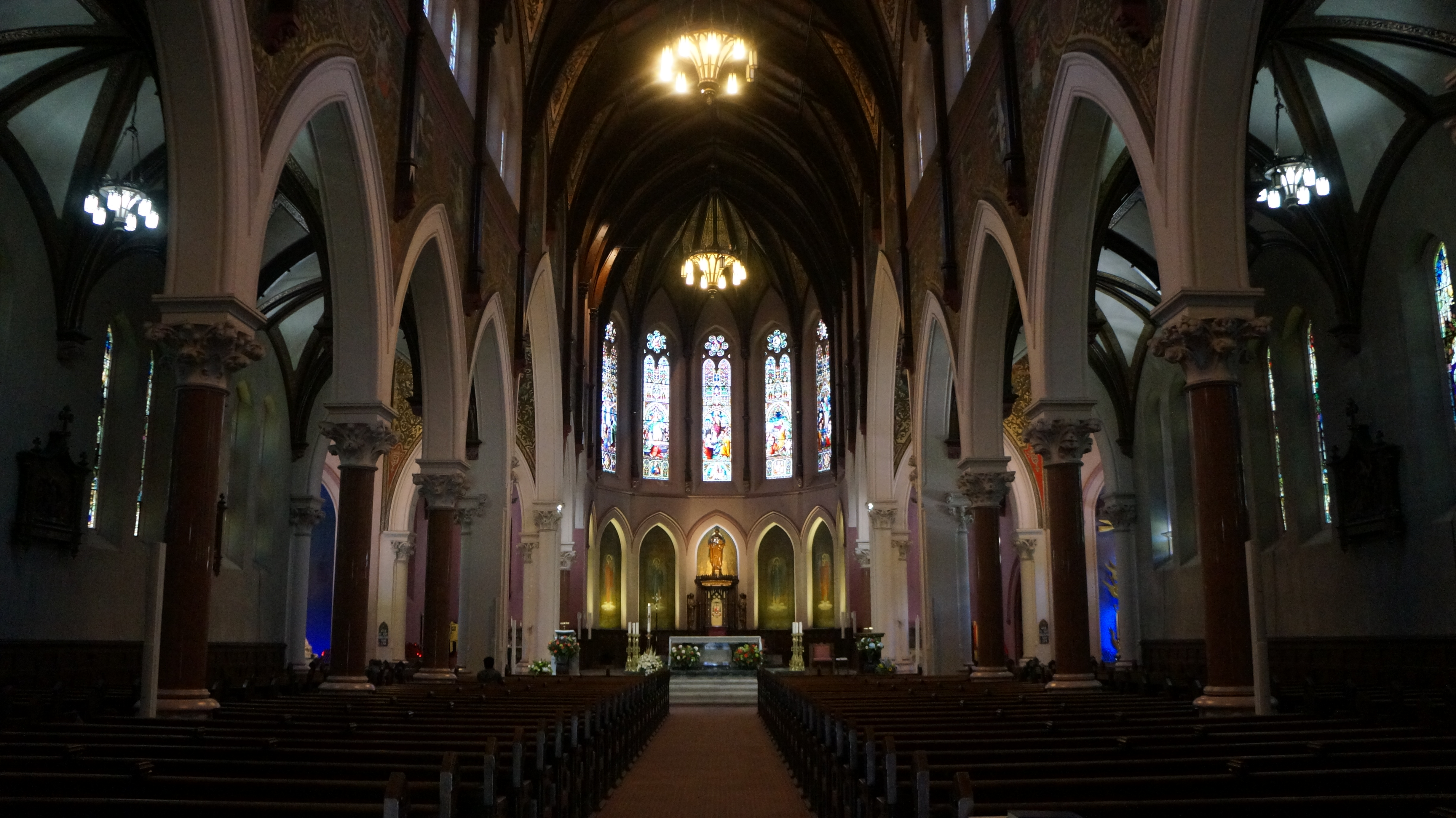 Interior of Saint Peter's Cathedral Basilica, London Ontario